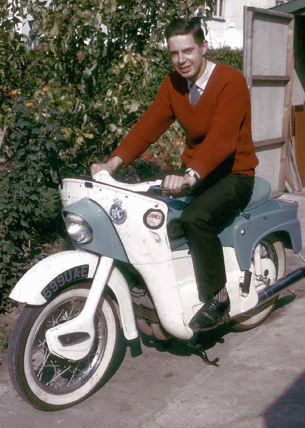 Ariel Leader 250cc motorbike in Bristol, England. Taken by Adrian Pingstone in 1963 (that's me on the bike) and released to the public domain.